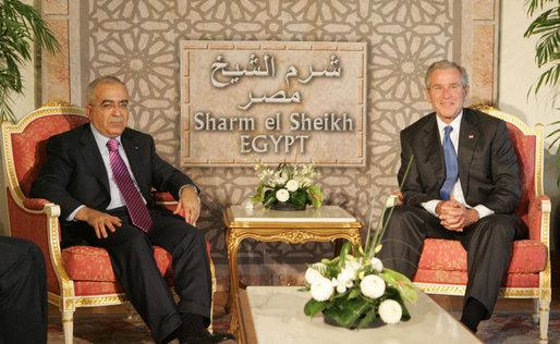 President of USA George W. Bush and prime minister of Palestine Sallam Fayyad